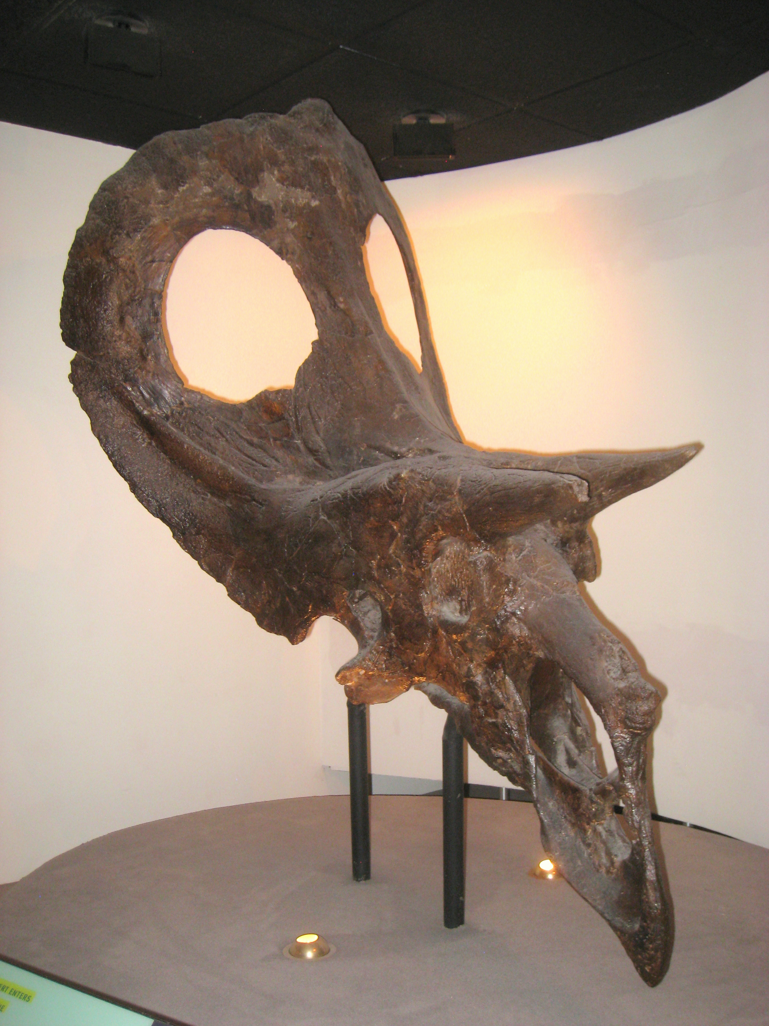 Torosaurus latus fossil skull (ANSP 15192) with plaster reconstruction. Exhibit in the Academy of Natural Sciences, 1900 Benjamin Franklin Parkway, Philadelphia, Pennsylvania, USA. Photography was permitted in this area of the museum without restrictions.